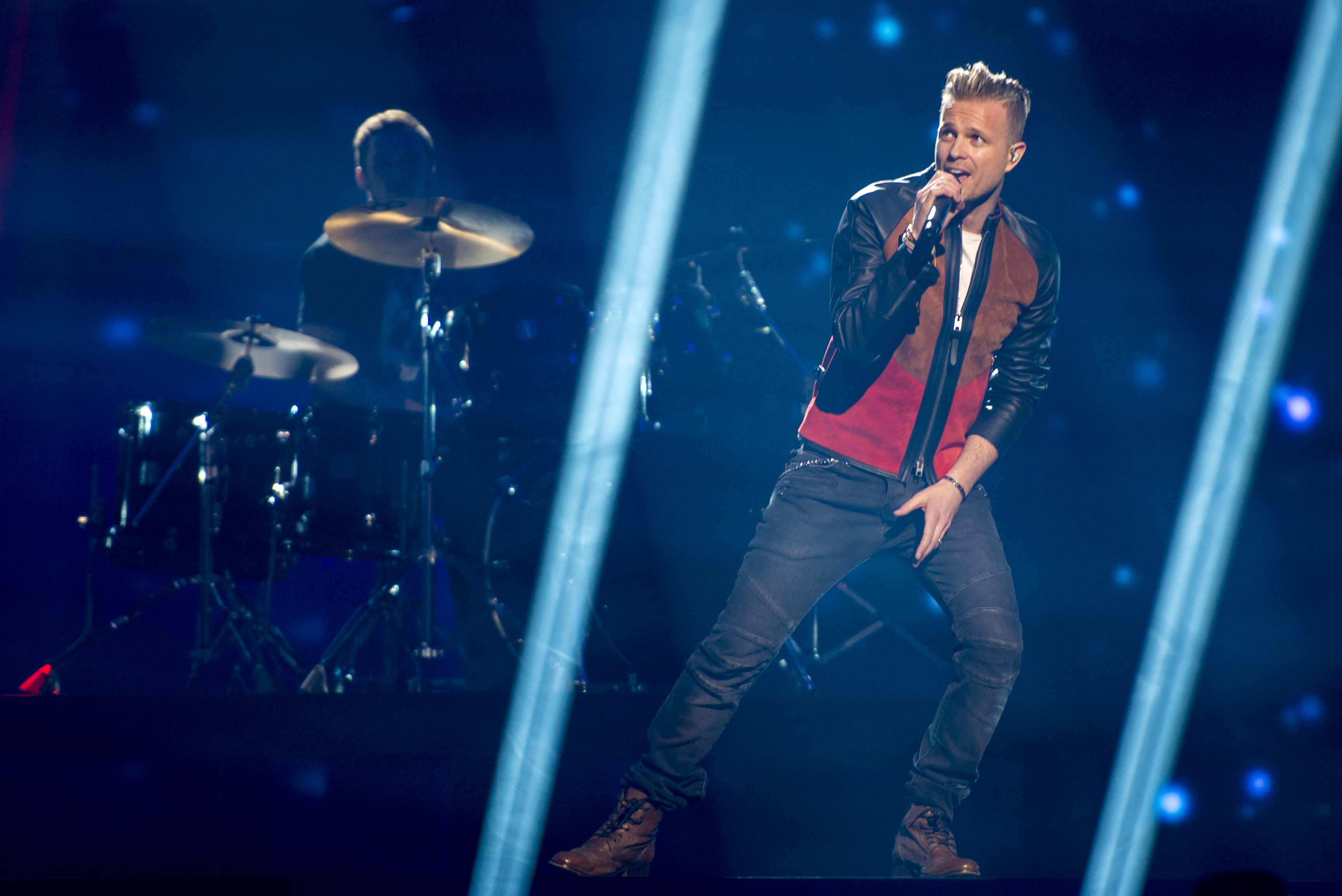 Nicky Byrne representing Ireland with the song "Sunlight" during a rehearsal before the second semi final of the Eurovision Song Contest 2016 in Stockholm. (Help translate this text)